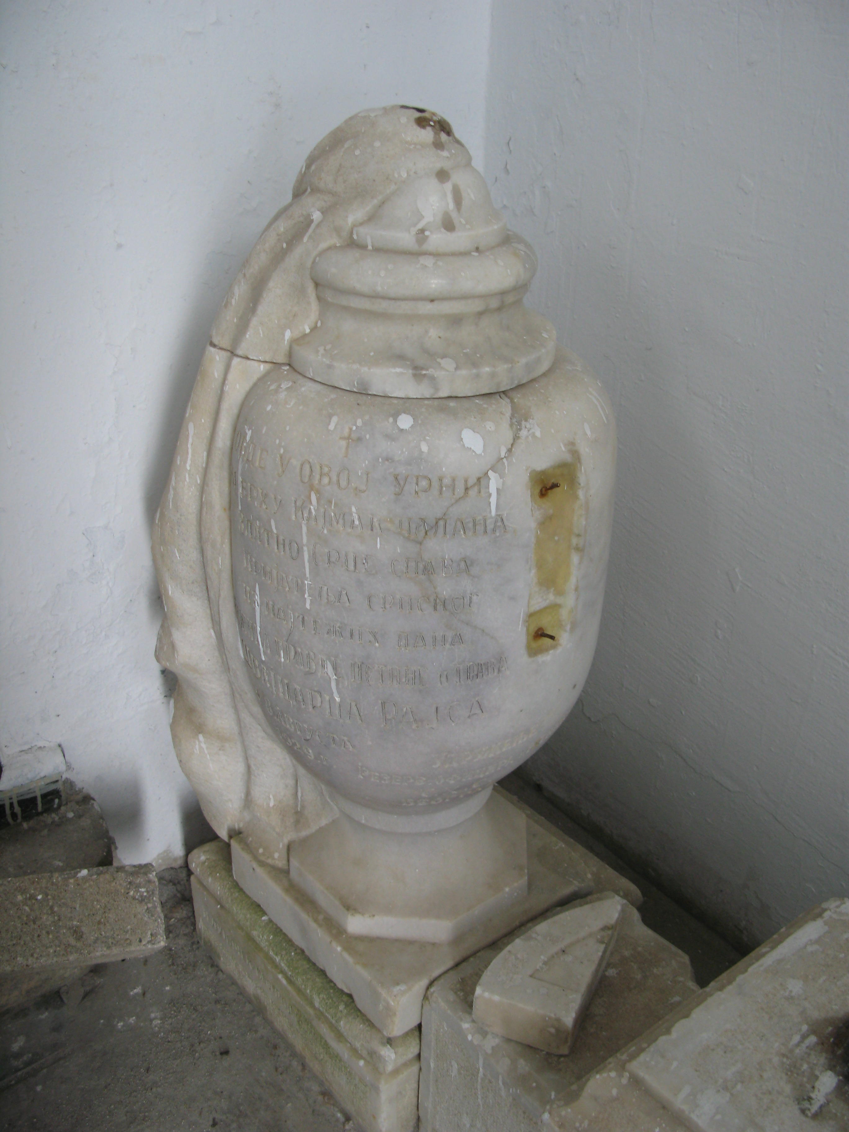 An urn with heart of dr. Archibald Reis in St. Peter Chappel on Kaimakchalan peak, Macedonia.